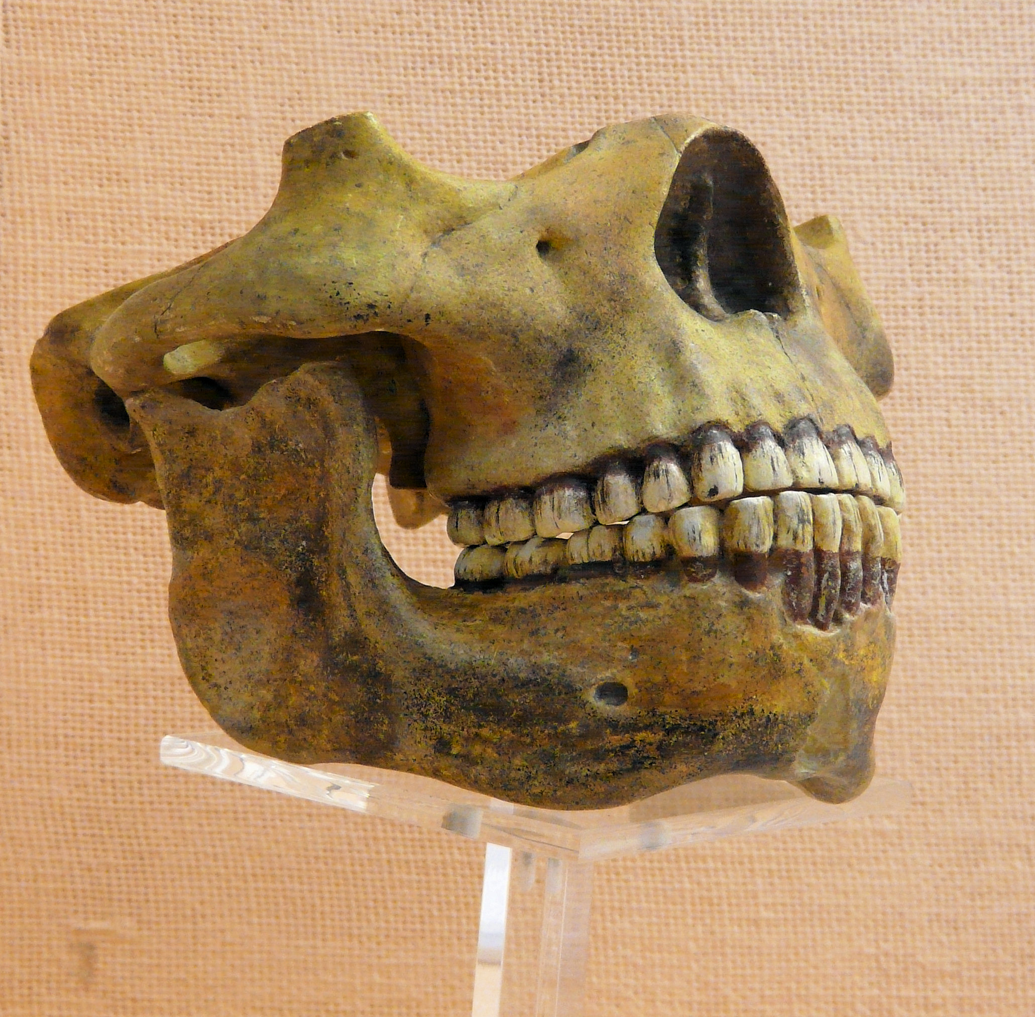 Jaws of Homo heidelbergensis; mandible (lower jaw) of the type specimen of Homo heidelbergenis from Mauer near Heidelberg, Germany (replika, museum of the Institute of Earth Sciences, University of Heidelberg)